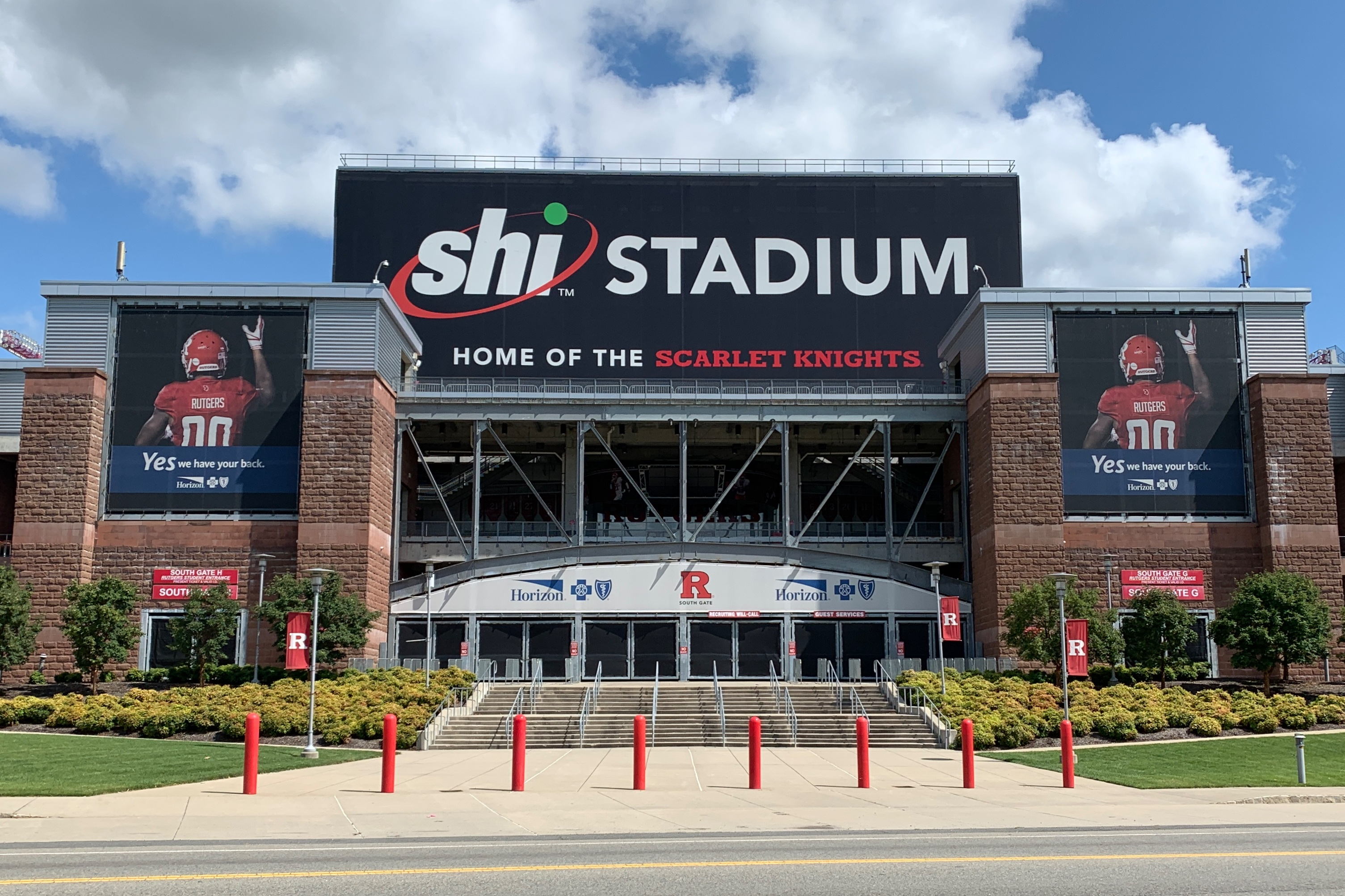 View of the South Gate of Rutgers Stadium from River Road (CR 622) in Piscataway, New Jersey. Home of the Scarlet Knights. Naming-rights deal with SHI International Corp starting in 2019.